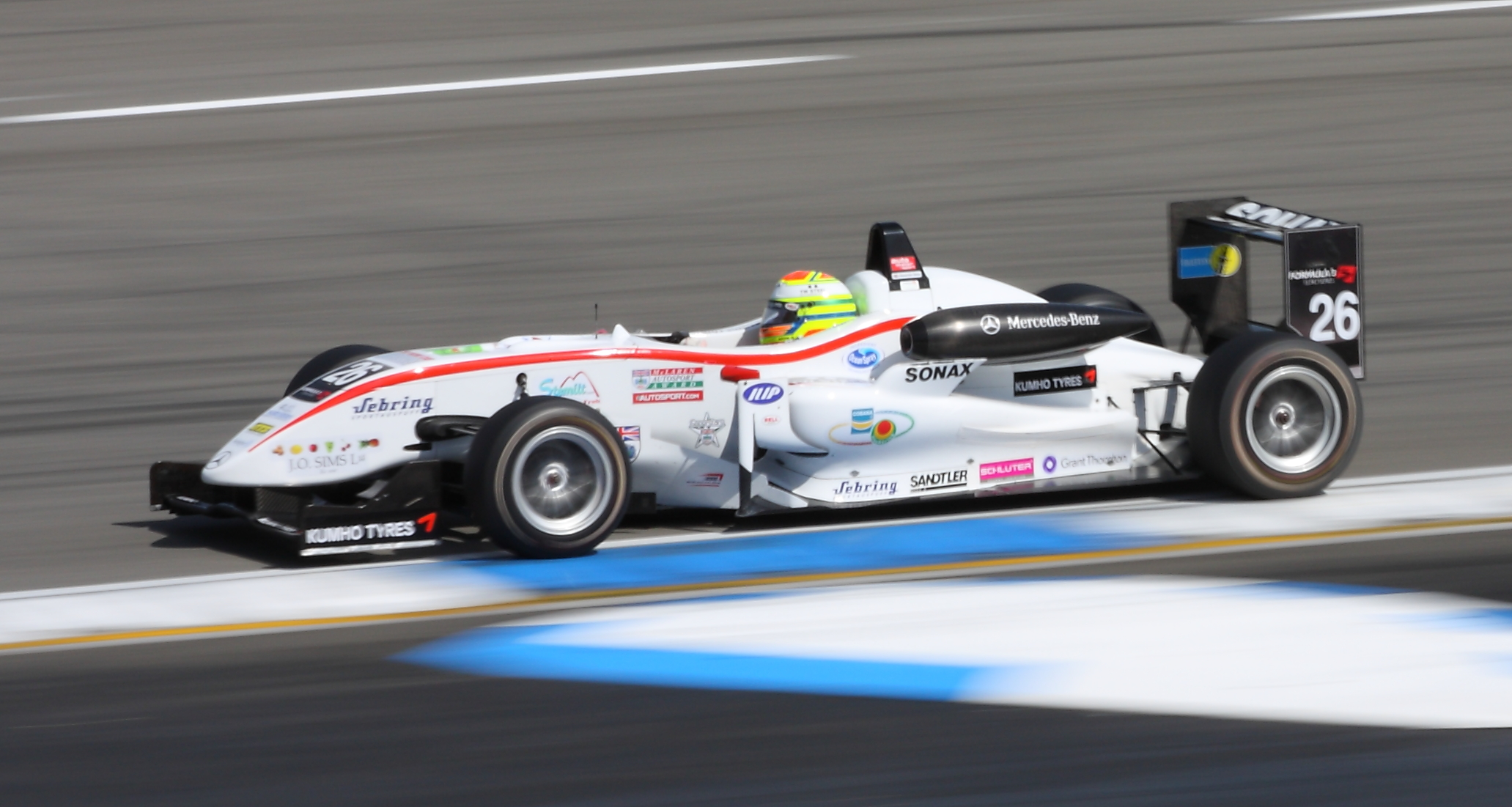 Formula 3 Euroseries, Hockenheimring; Alexander Sims